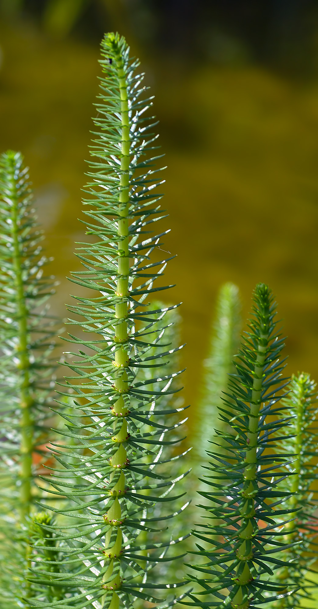 This image shows a Common Mare's-tail (Hippuris vulgaris).